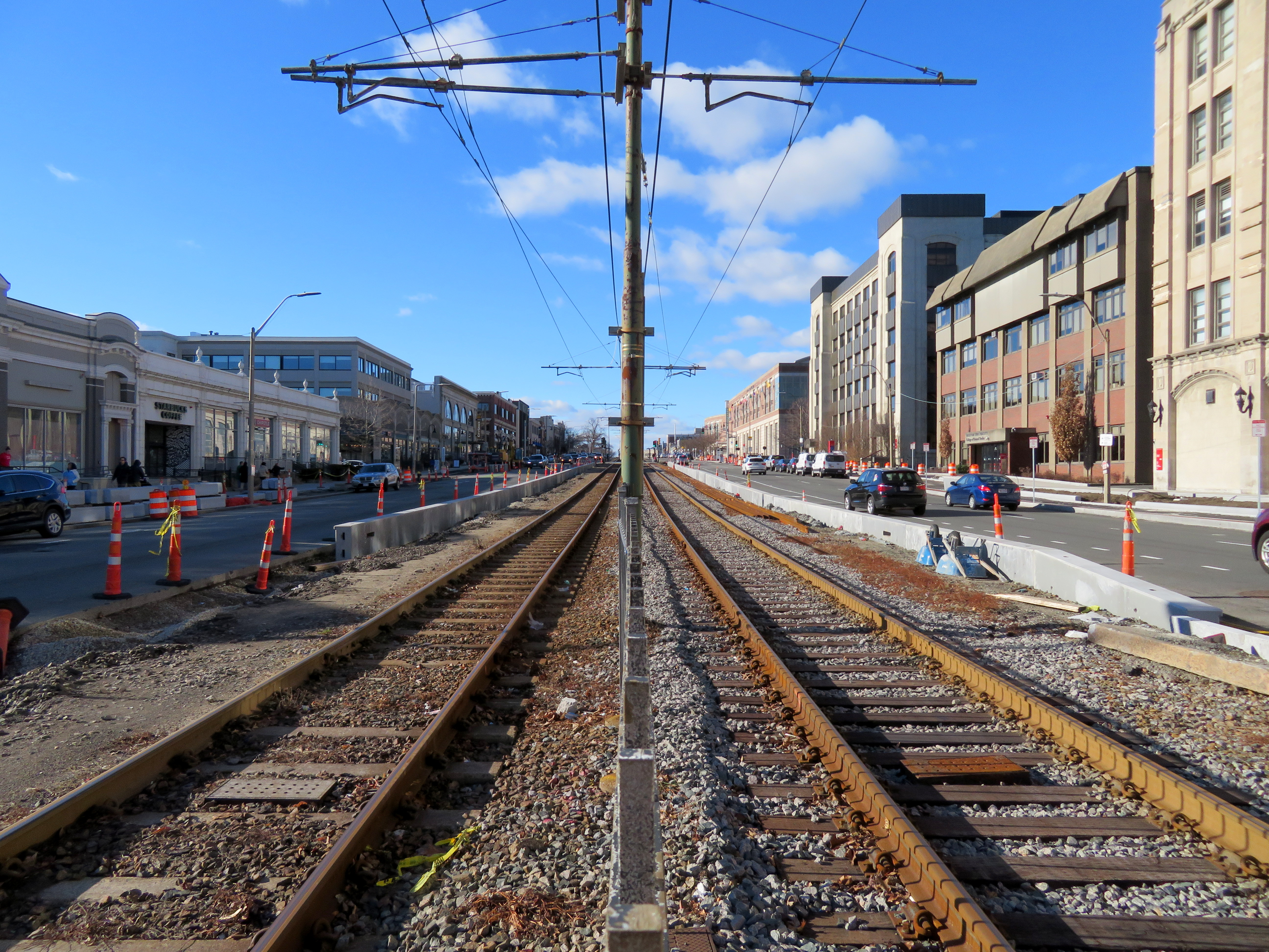 Construction of the walls of the new station between Amory Street and St. Paul Street in December 2018